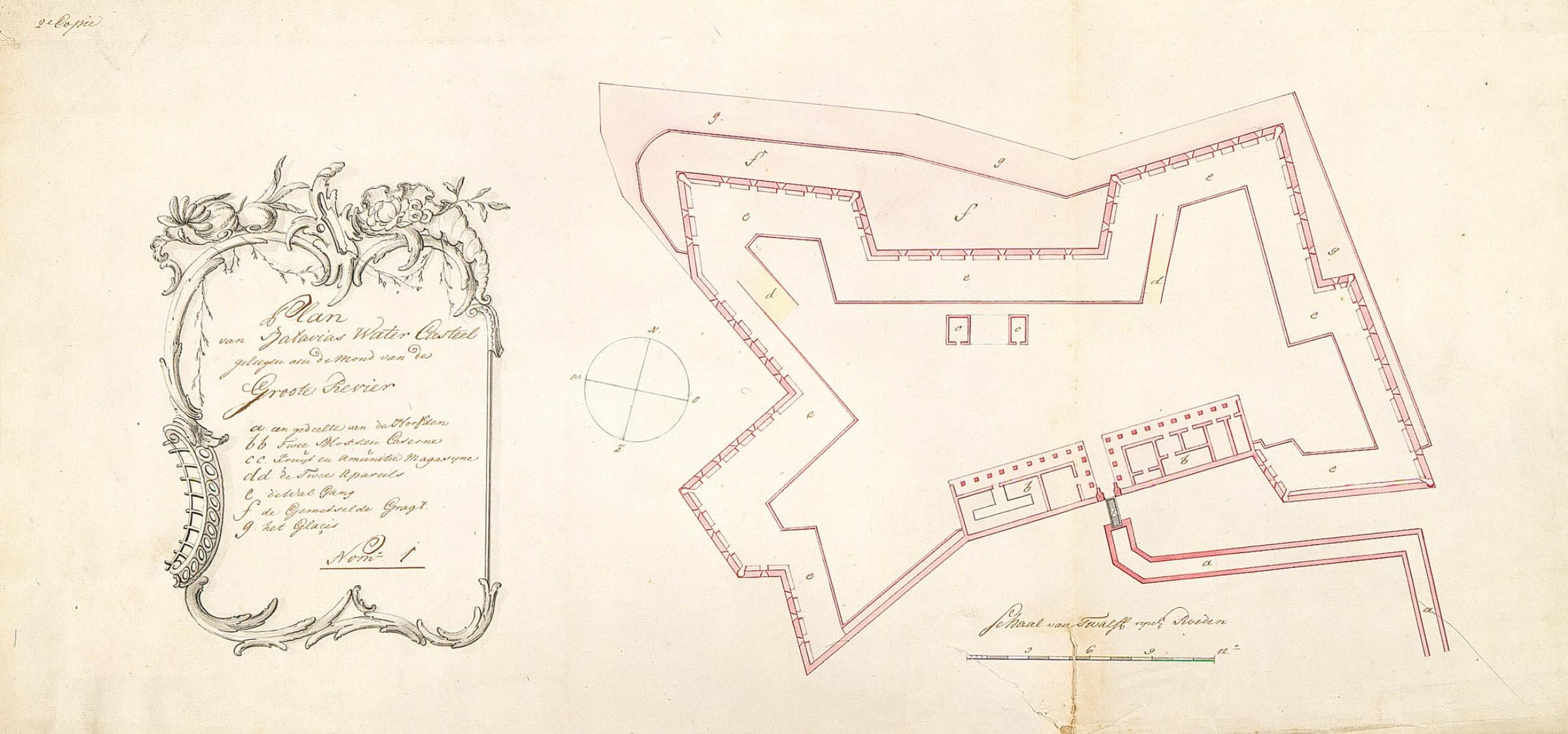 According to the Leupe catalogue (NA), the original title reads: Plan van Batavia's Water-Casteel, geleegen aan de mond van de Groote Rivier. The map is marked: 2e Copie. Notes on reverse: No. 1.b. [written in both the top left and top right corners].